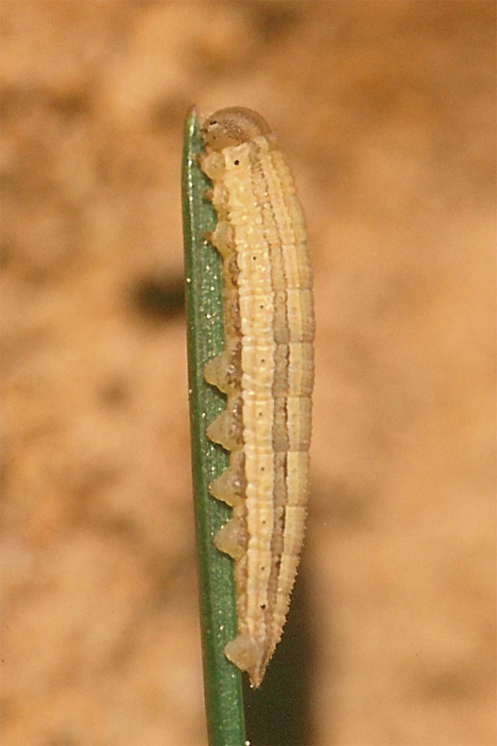 Grayling (Hipparchia semele) caterpillar